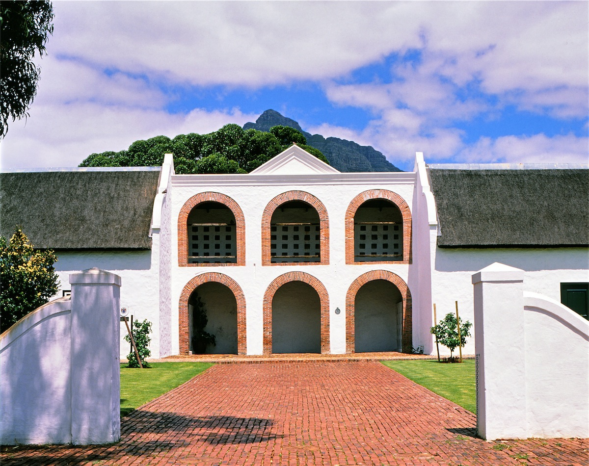 This media shows a South African Protected Site with SAHRA file reference 9/2/018/0212-001.